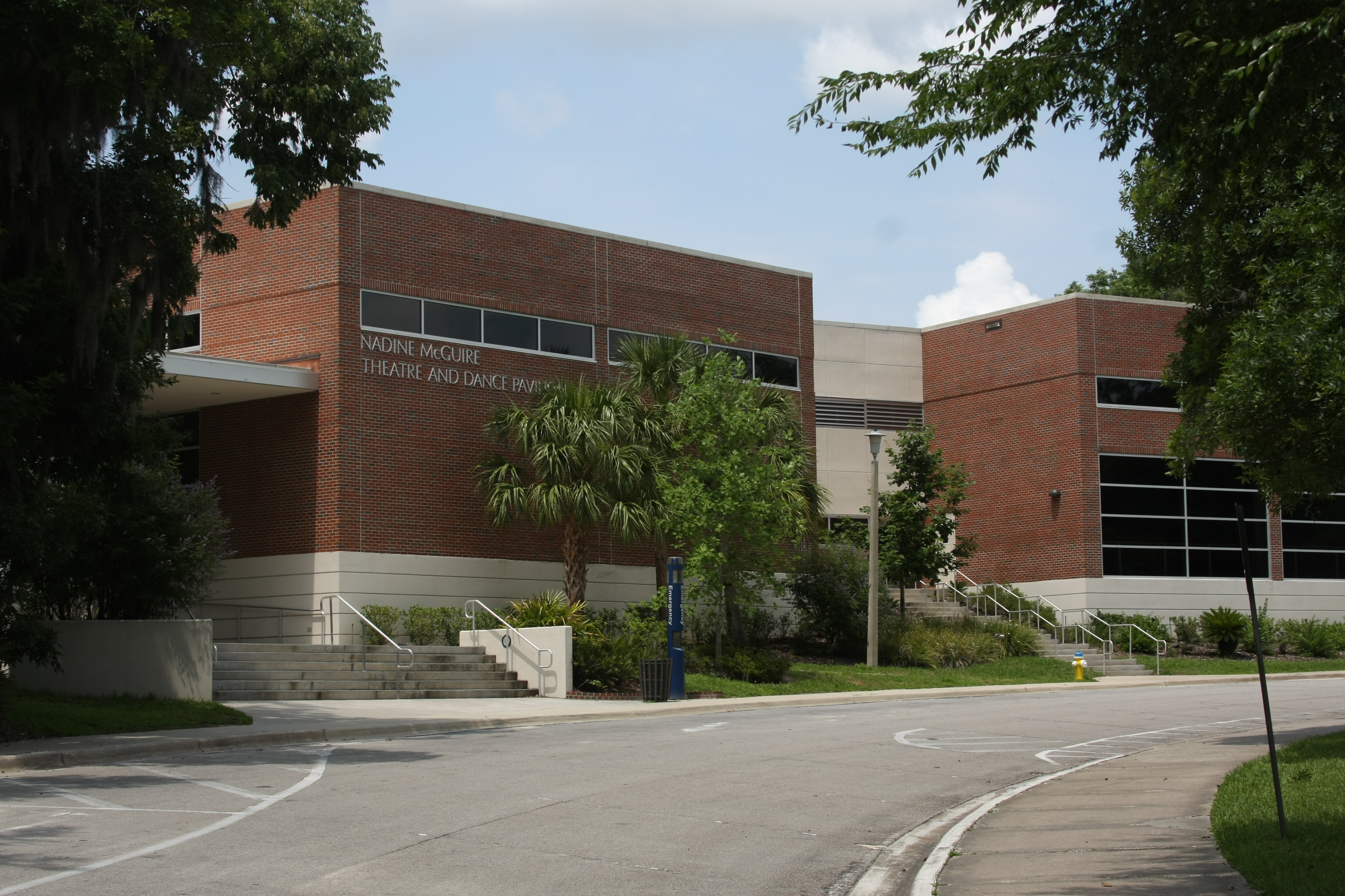 Nadine McGuire Pavilion at the University of Florida